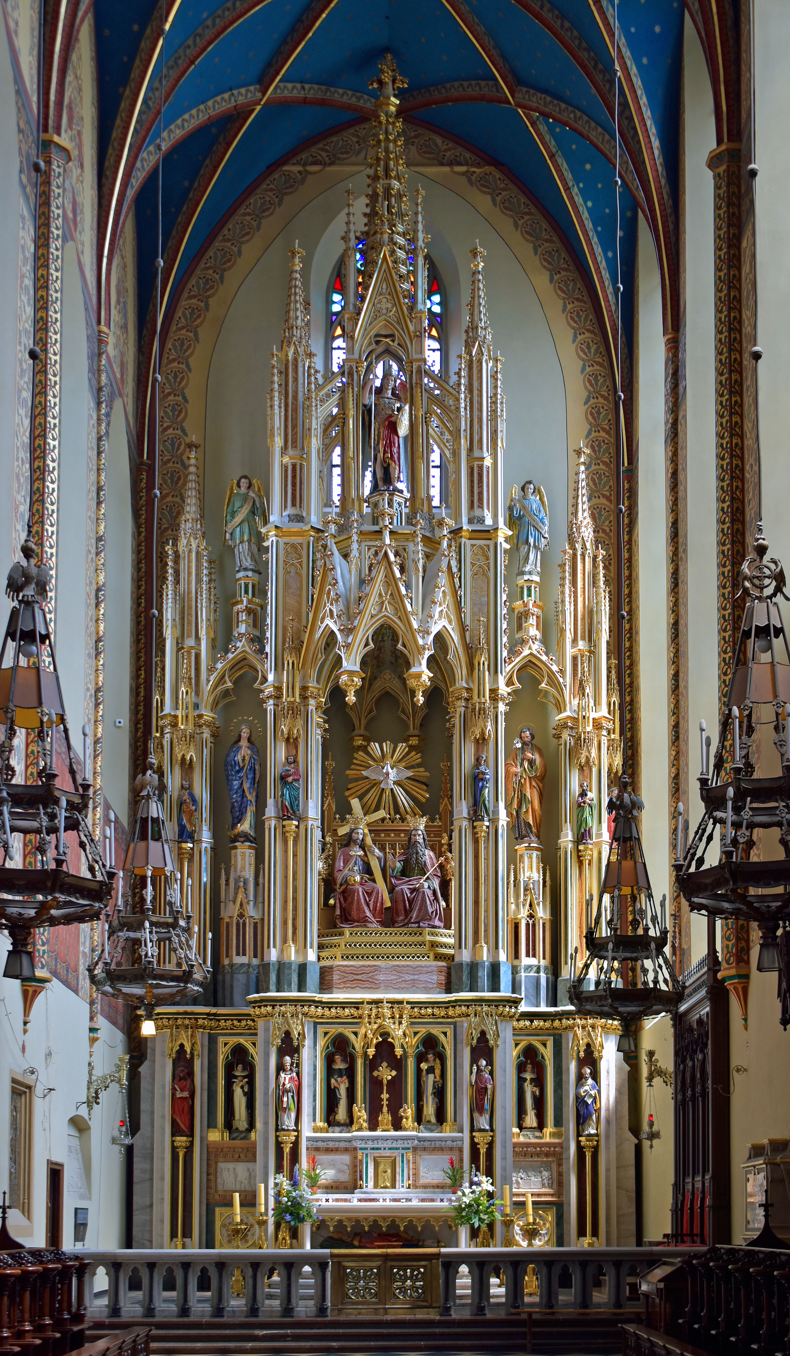 Church of Holy Trinity, main altar, 12 Stolarska street, Old Town, Krakow, Poland